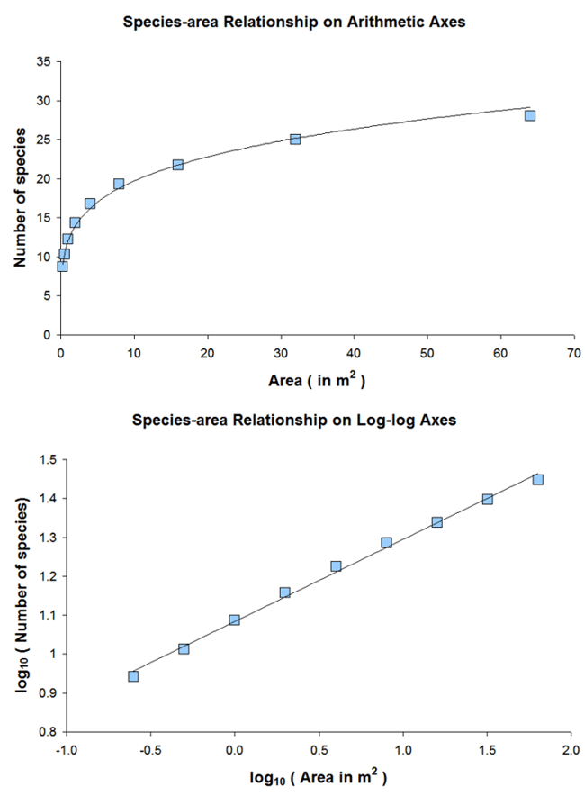 Author and dataset manager/owner: Adam B. Smith